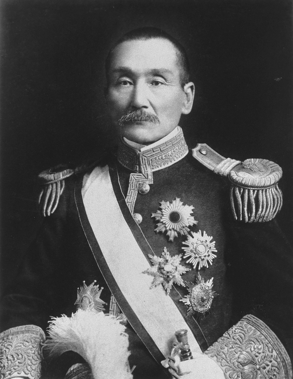 Portrait of Hirata Tosuke (平田東助, 1849 – 1925)